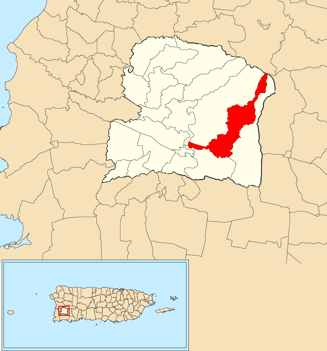 Guamá, San Germán, Puerto Rico locator map